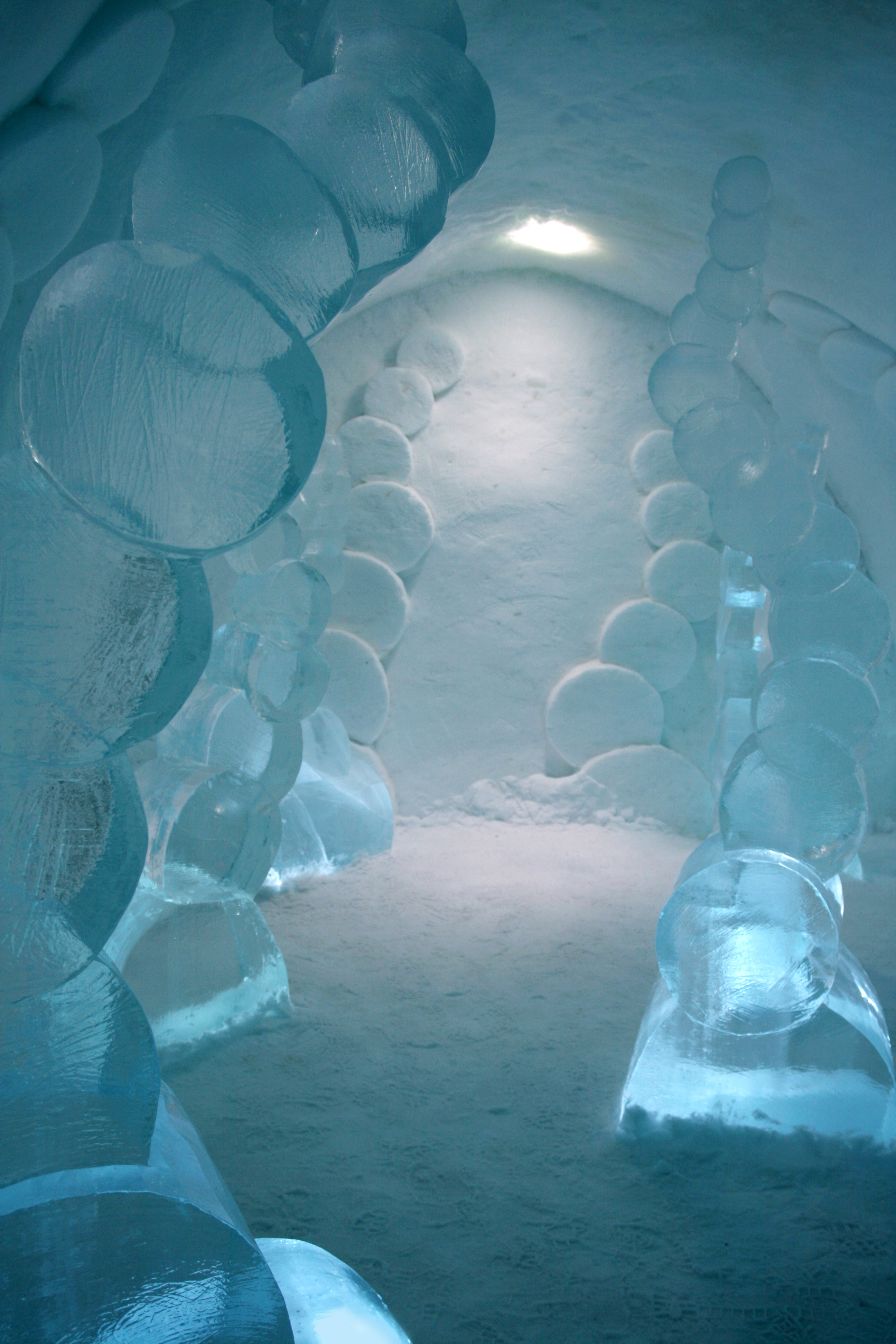 'Coming out' Art suite in ICEHOTEL Jukkasjärvi, Sweden, 2008. Made by Maurizio Perron.